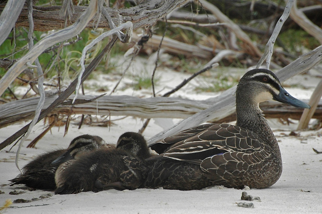 Pacific Black Duck and ducklings, Pelican Point, 2009.